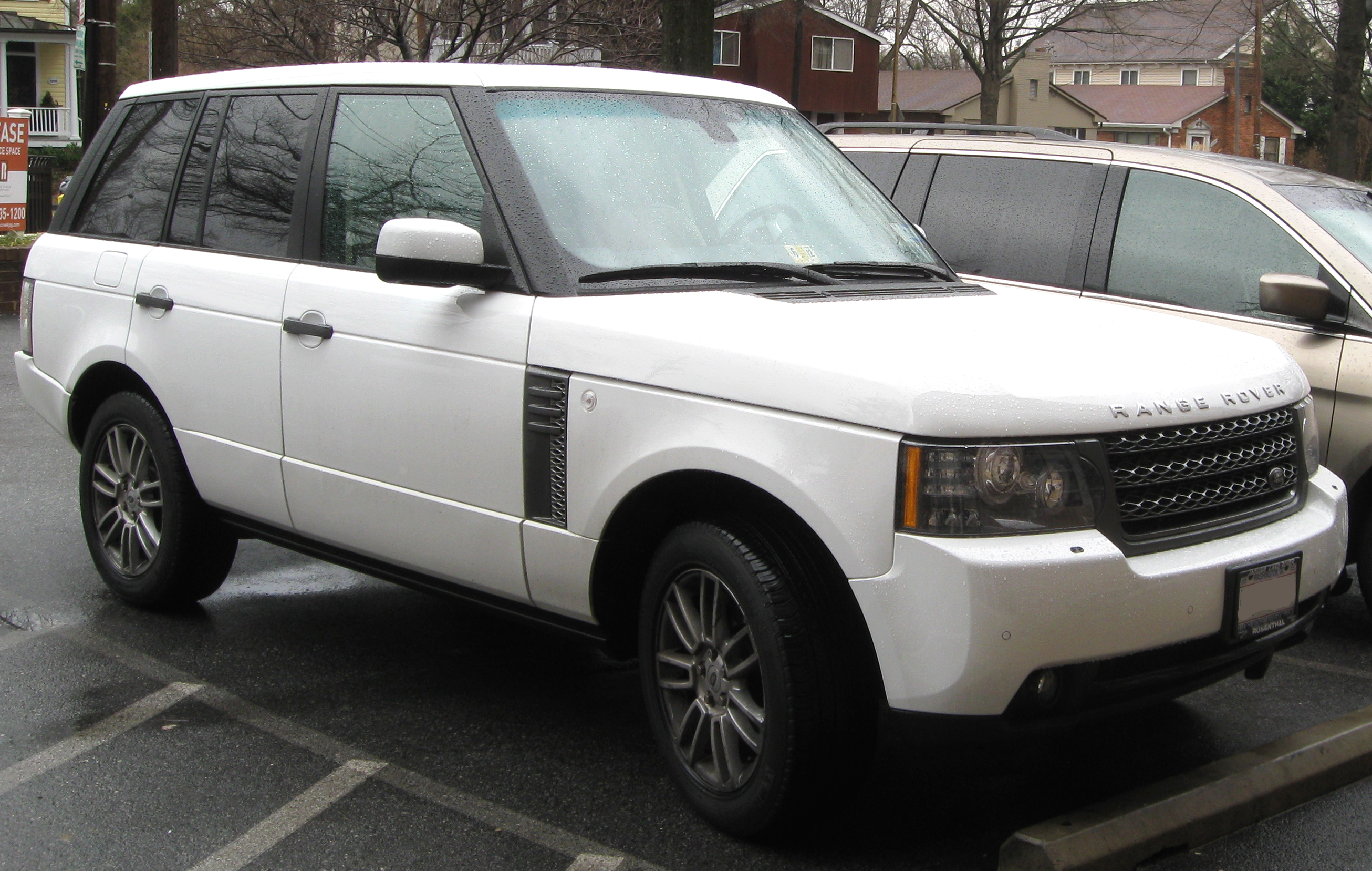 2010-2012 Range Rover photographed in Washington, D.C., USA.